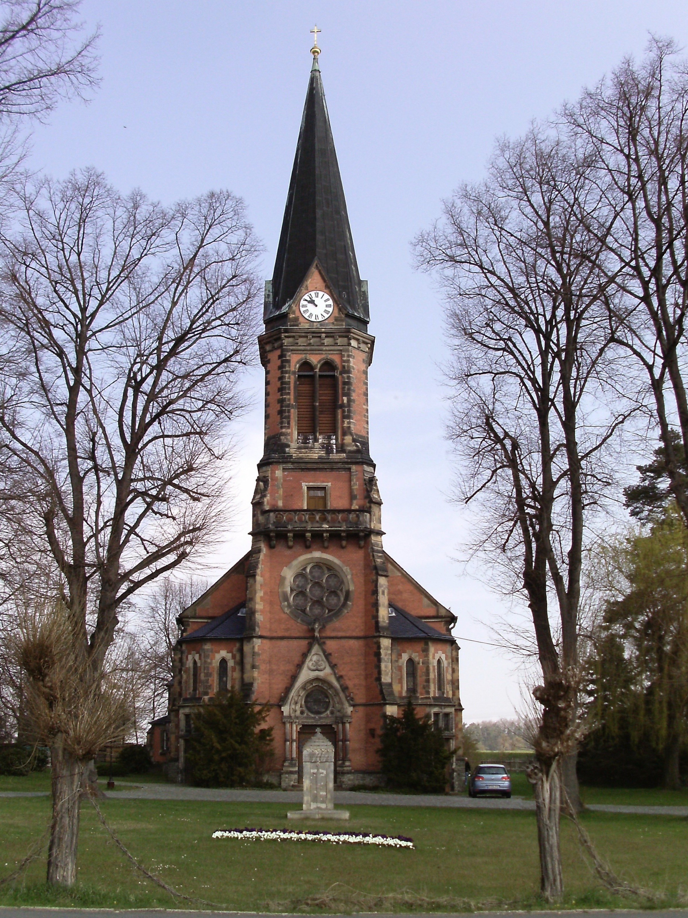 Hörnitz church (Bertsdorf-Hörnitz, Görlitz district, Saxony)